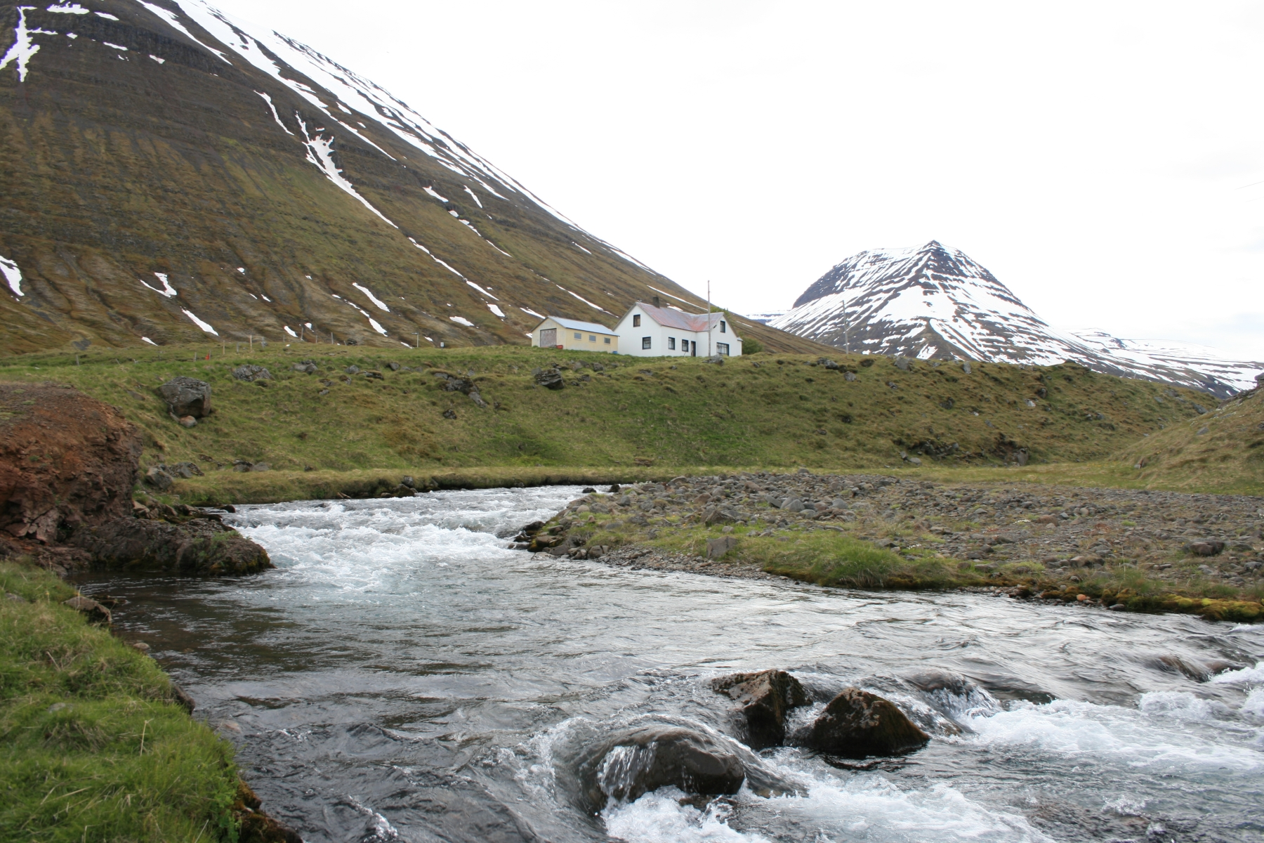 The farm Kot in Svarfaðardalur North Iceland